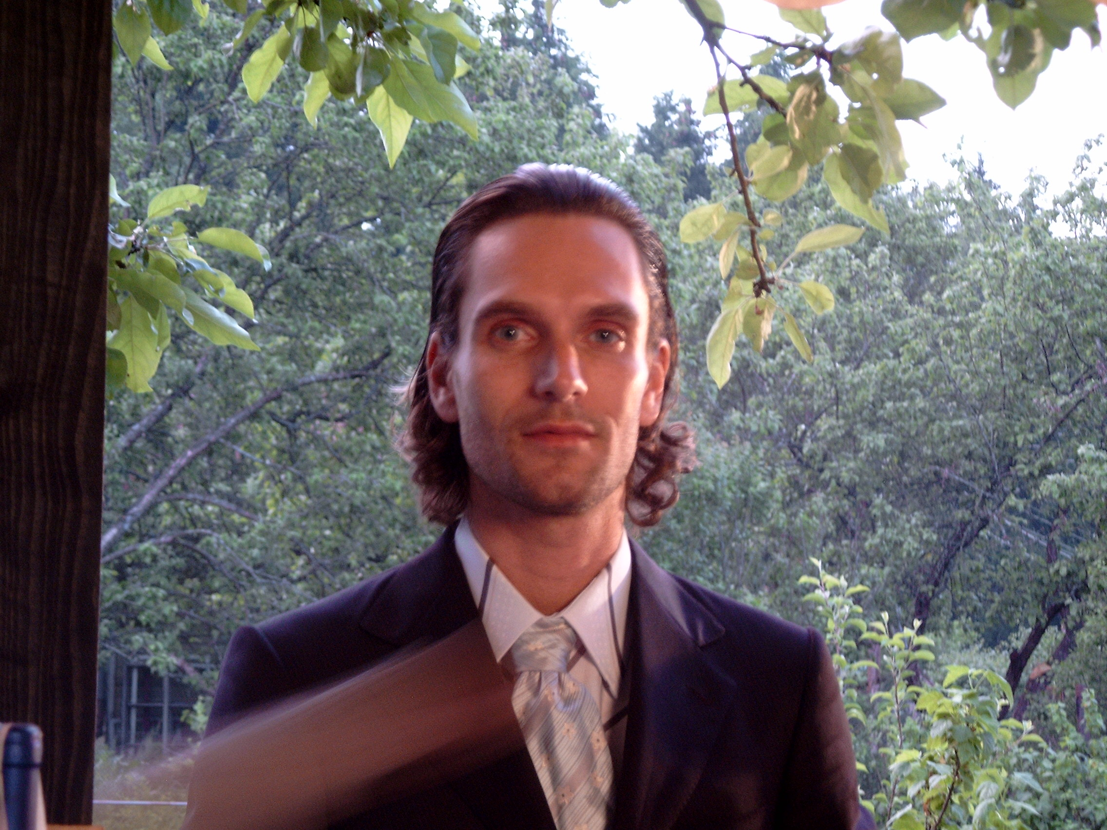 photo of Tomas N'evergreen at a photo session for Men's Health